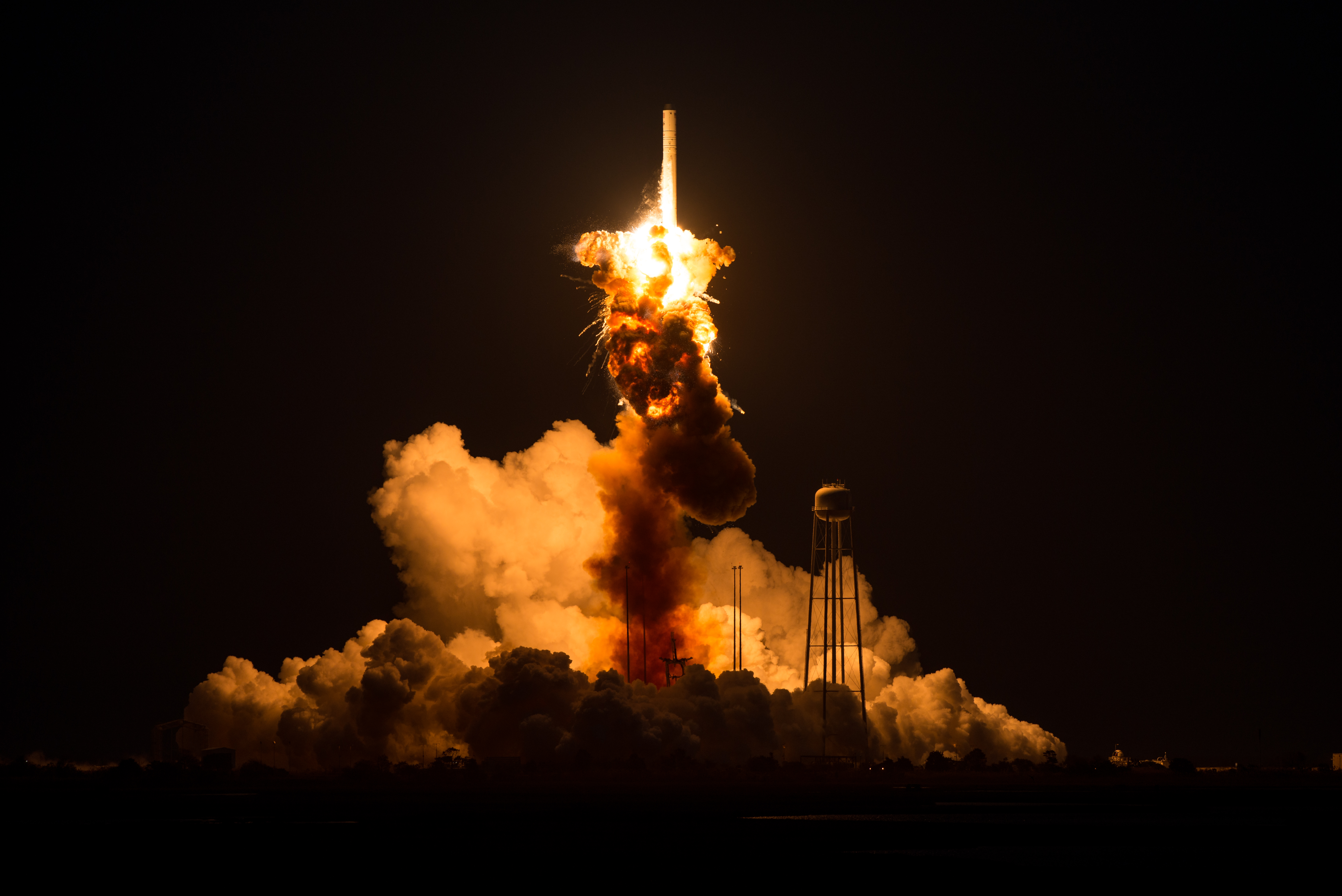 The Orbital Sciences Corporation Antares rocket, with the Cygnus spacecraft onboard suffers a catastrophic anomaly moments after launch from the Mid-Atlantic Regional Spaceport Pad 0A, Tuesday, Oct. 28, 2014, at NASA's Wallops Flight Facility in Virginia. The Cygnus spacecraft was filled with about 5,000 pounds of supplies slated for the International Space Station, including science experiments, experiment hardware, spare parts, and crew provisions.